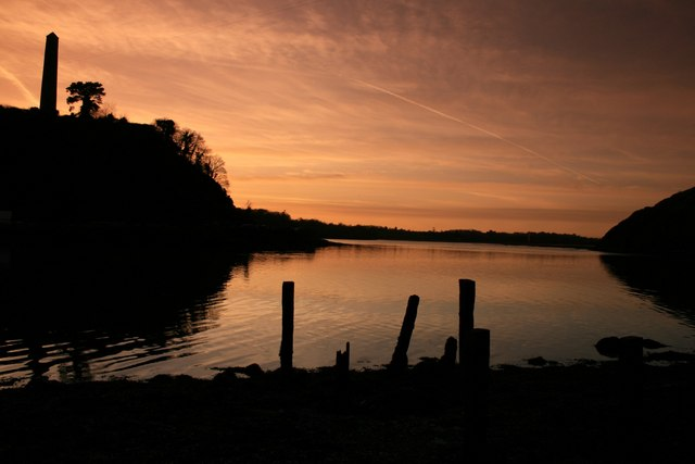 Slaney River at Dusk - Near Ferrycarrig